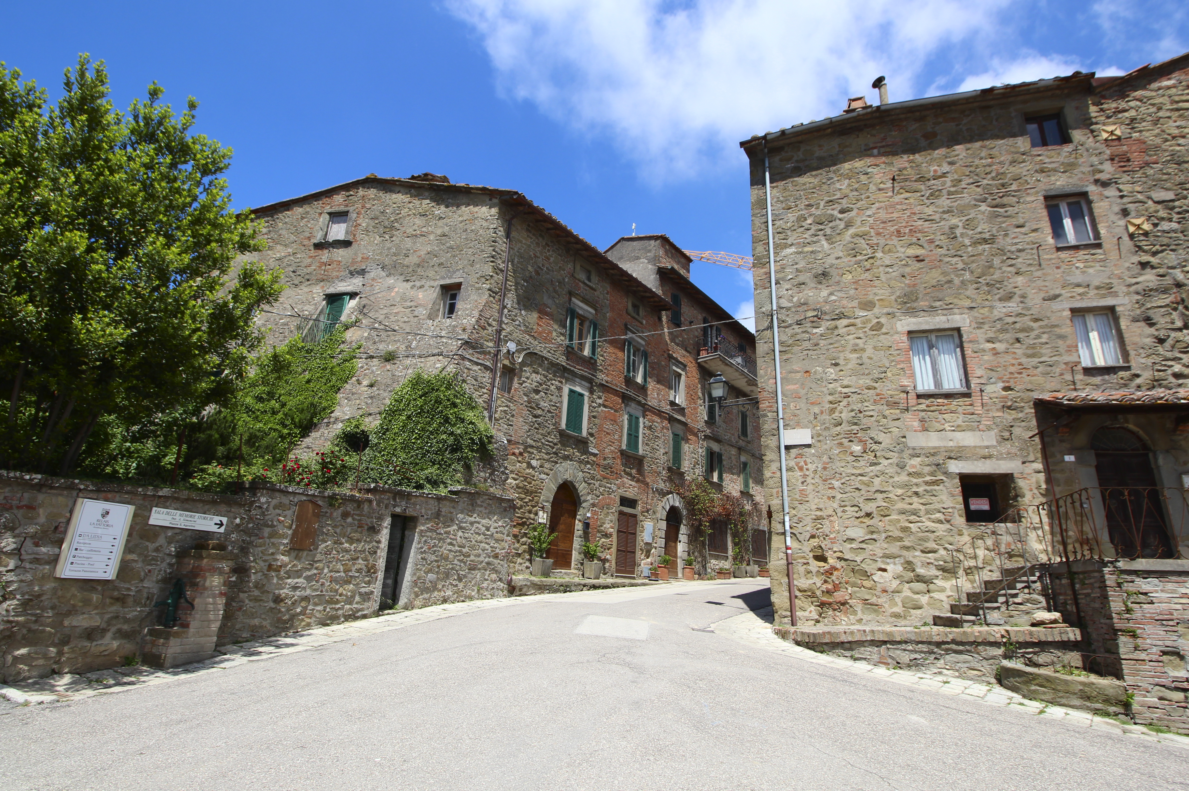 Castel Rigone, hamlet of Passignano sul Trasimeno, Umbria, Italy